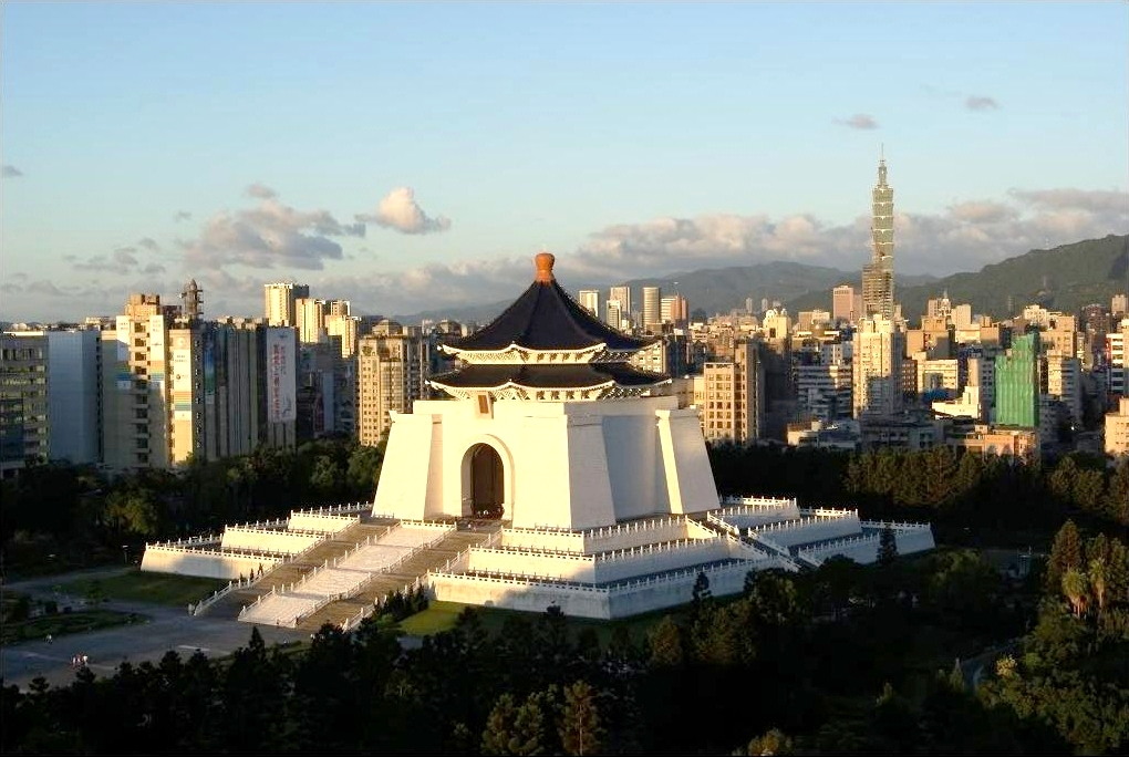 Chiang Kai Shek Memorial Hall Bân-lâm-gú: Tiong-tsìng Kí-liām-tn̂g. 中正紀念堂